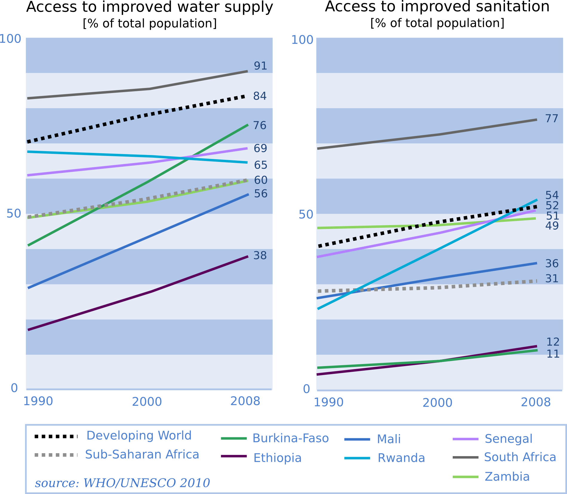 Graph showing the evolution in access to Improved Water Supply and Sanitation (WSS) in 7 Sub-Saharan African countries. Period: from 1990 until 2008. Based on data from the WHO/UNESCO Joint Monitoring Program.